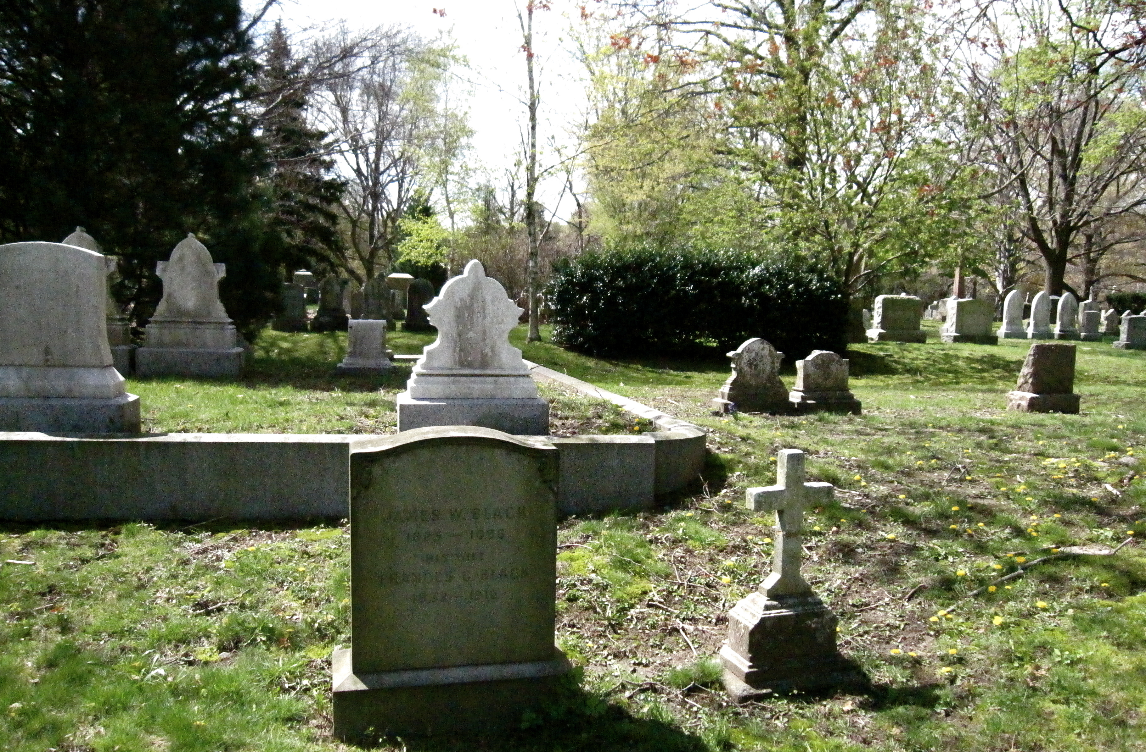 Gravestone of photographer James Wallace Black and his wife, Francis G. Sharp, Mt. Auburn Cemetery, Cambridge MA